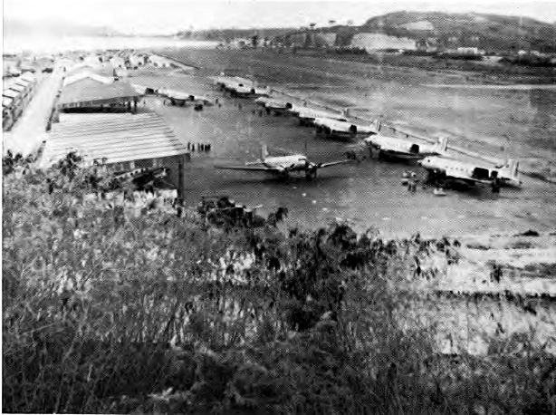 French Armée de l'Air Douglas C-47s at Don Son airfield, Haiphong, Vietnam, in 1954.